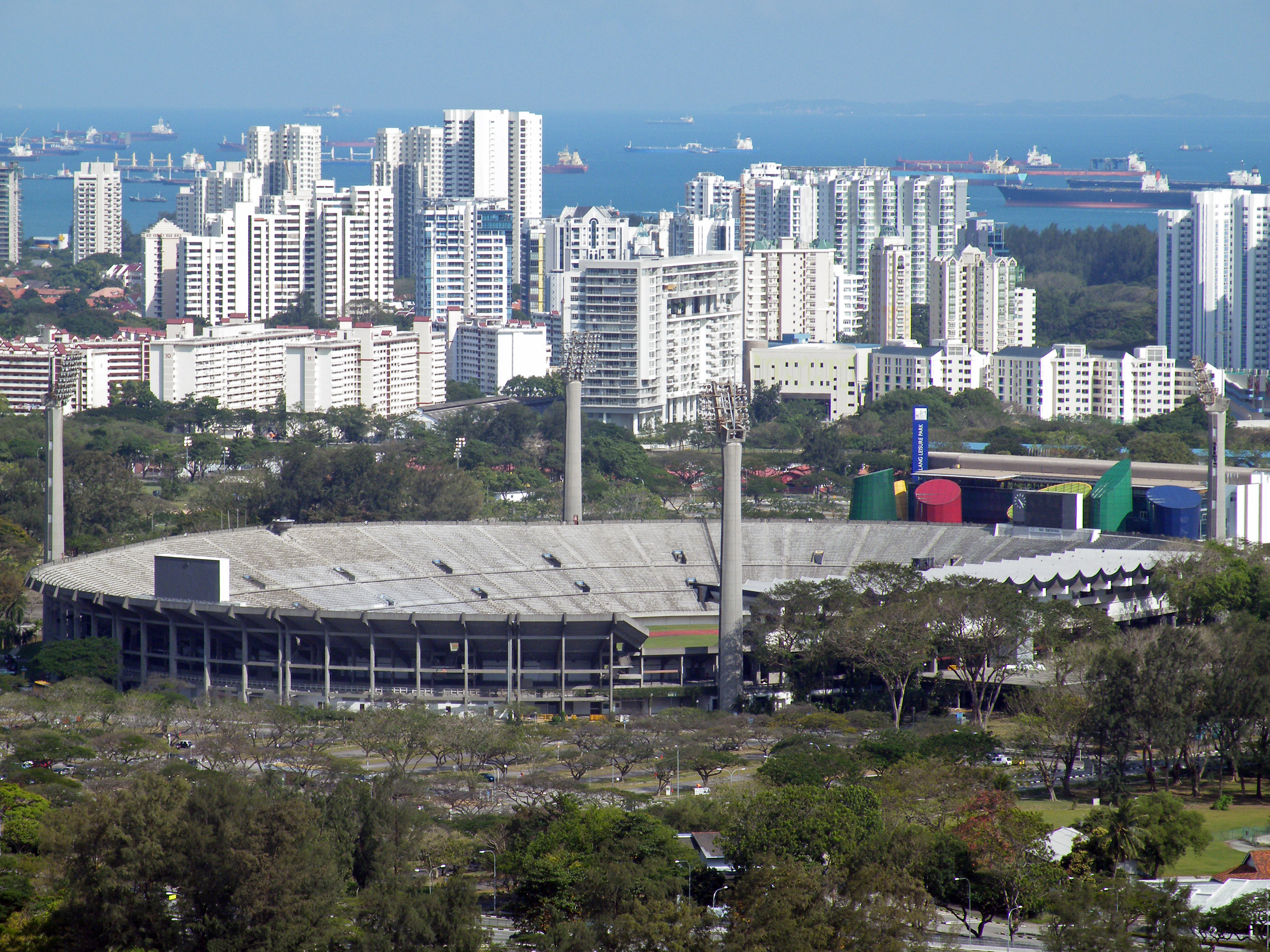 The National Stadium of Singapore as seen from the CityLights Condominium at Lavender